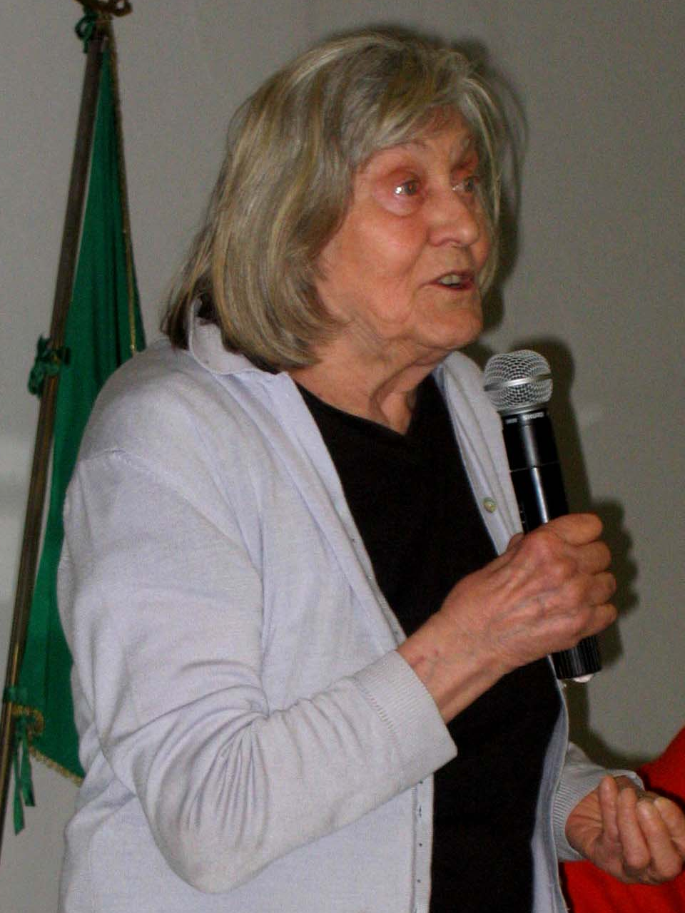 The Italian scientist Margherita Hack holding a lecture in Rome, 30 March 2007.